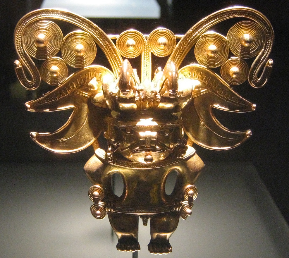 Tairona pendant in the Museo del Oro, Bogotá. Tumbaga (gold, copper alloy). Size: 10,6 x 11.3 cm